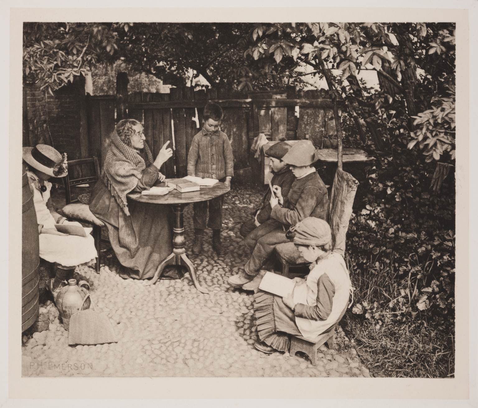 'A Dame's School'. In the 1887 book ‘Pictures From Life In Field And Fen,’ photographer Peter Henry Emerson observed and recorded scenes of country life in East Anglia, England. This was taken in a fisherman’s cobbled yard; another taken there was Confessions, Peter Henry Emerson, 1887.jpg. Collection of National Media Museum/The Royal Photographic Society (Peter Henry Emerson).